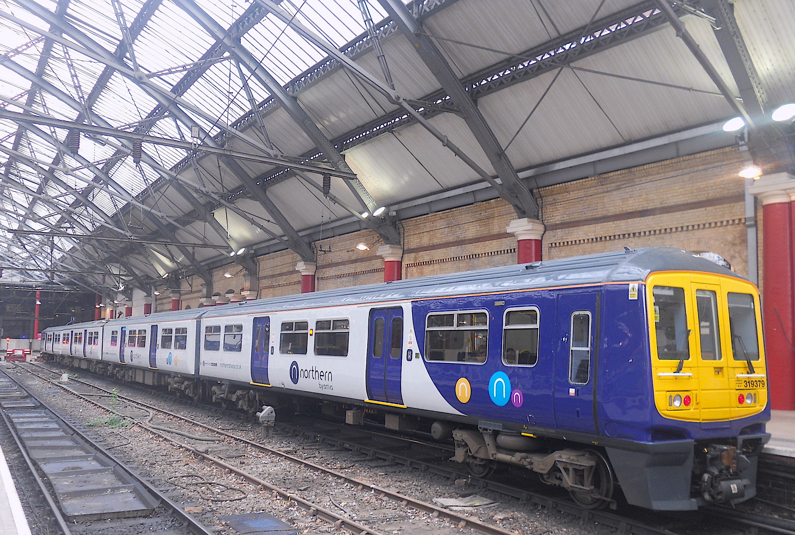 Arriva Northern refurbished Class 319/3 No. 319379 at Liverpool Lime Street